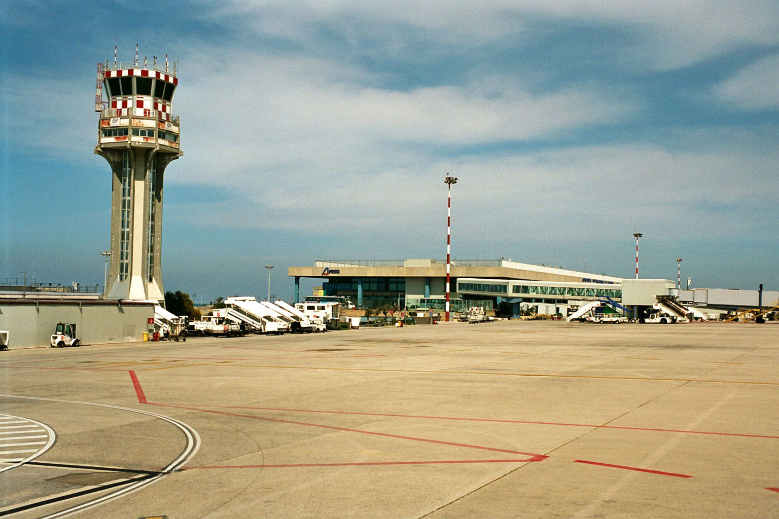 Palermo airport. On the taxiway, view from the airplane to tower and main building.